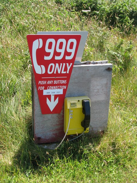 Emergency telephone near the Logan Rock. The grid reference is conveniently noted on the sign.